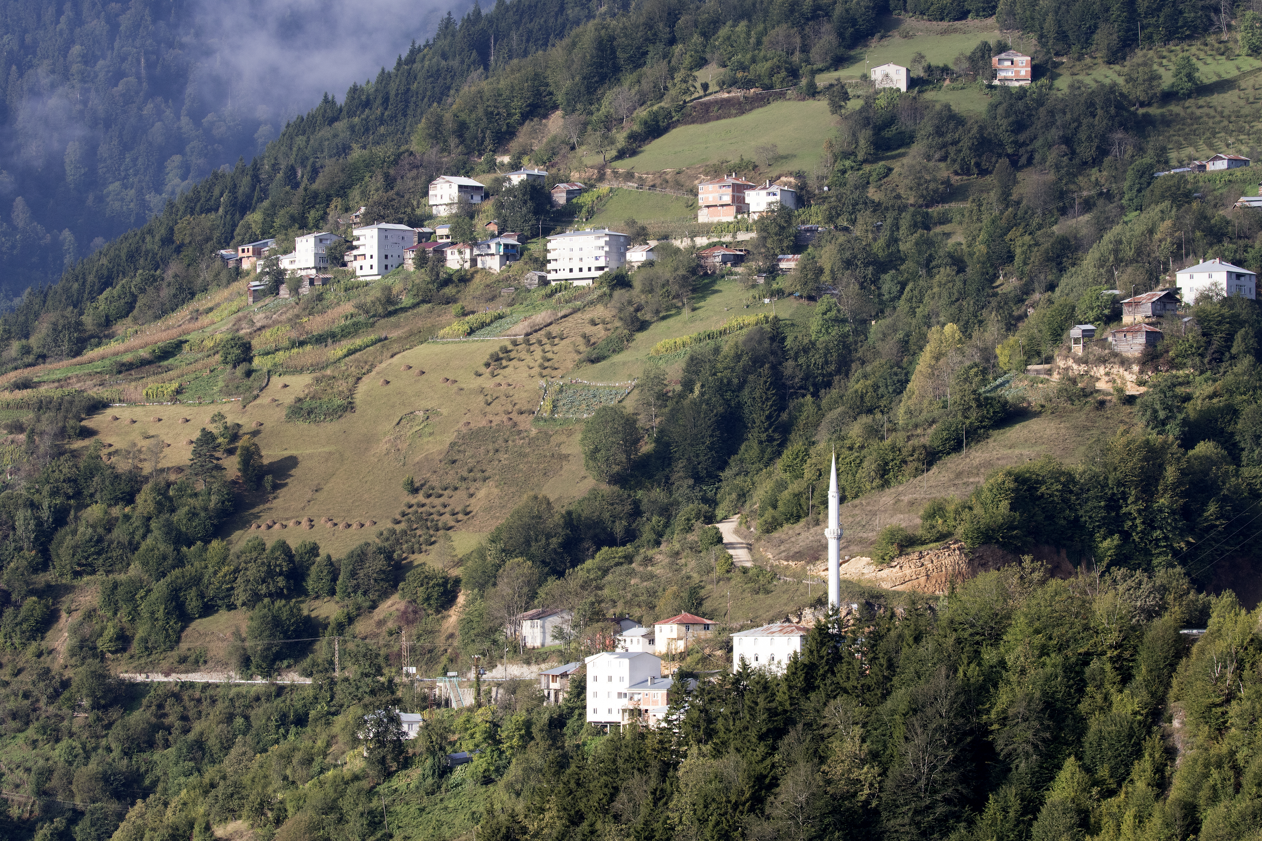 A partial view of Pınarlar Village in Dereli - Giresun, Turkey.